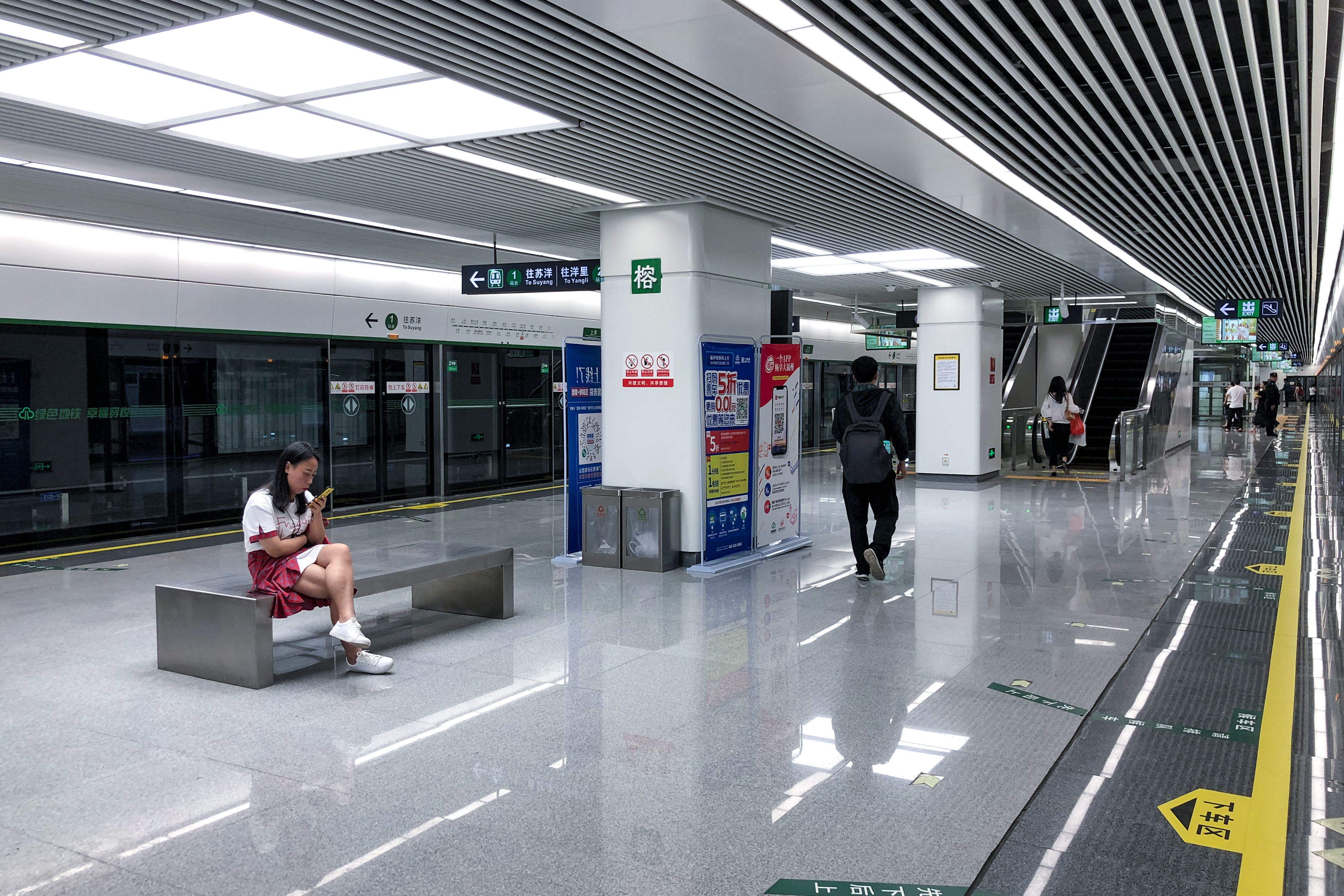 A suburb near Gushan.